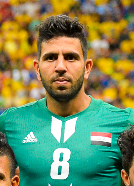 Brazil-Iraq 0:0